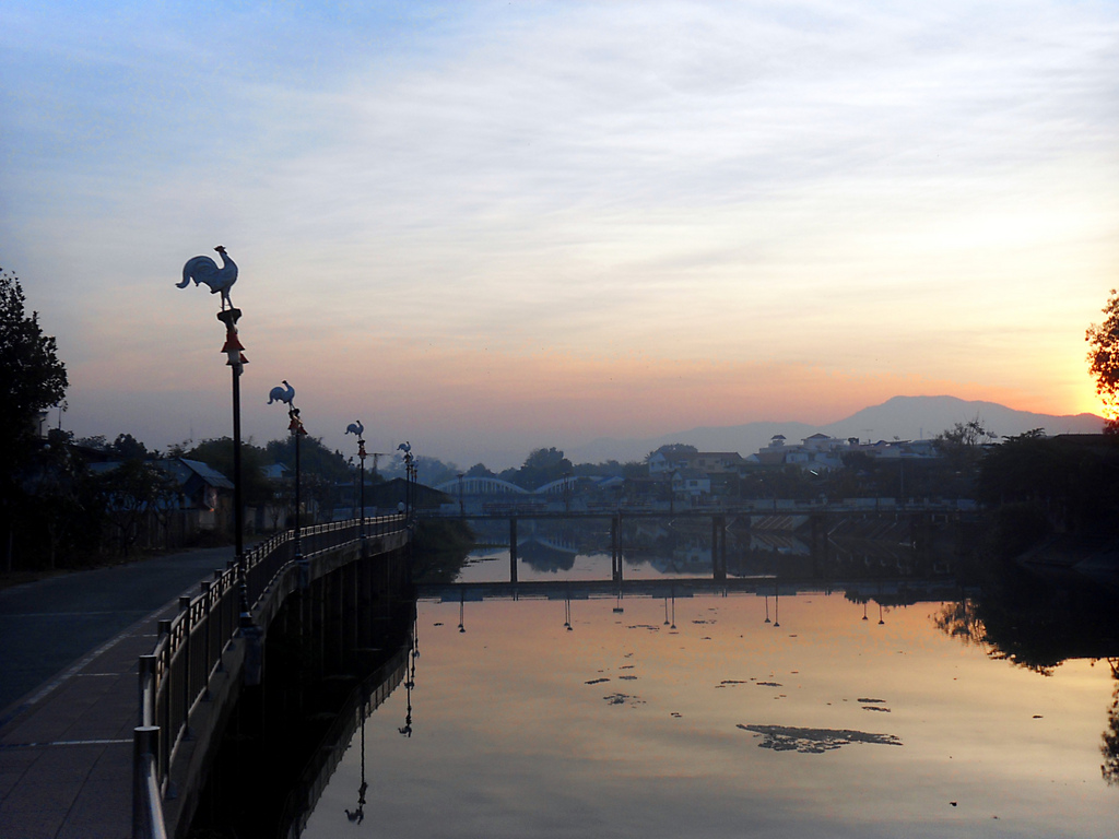 Sunset over the river in Lampang (ลำปาง), Thailand